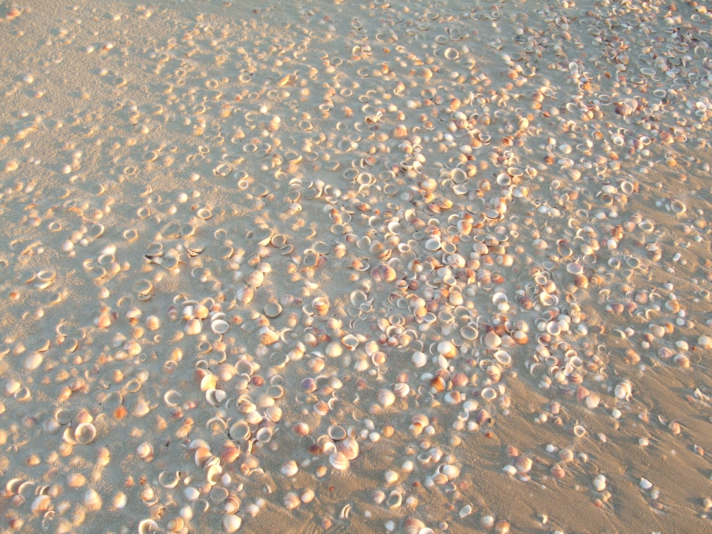 Lots of shells on the beach